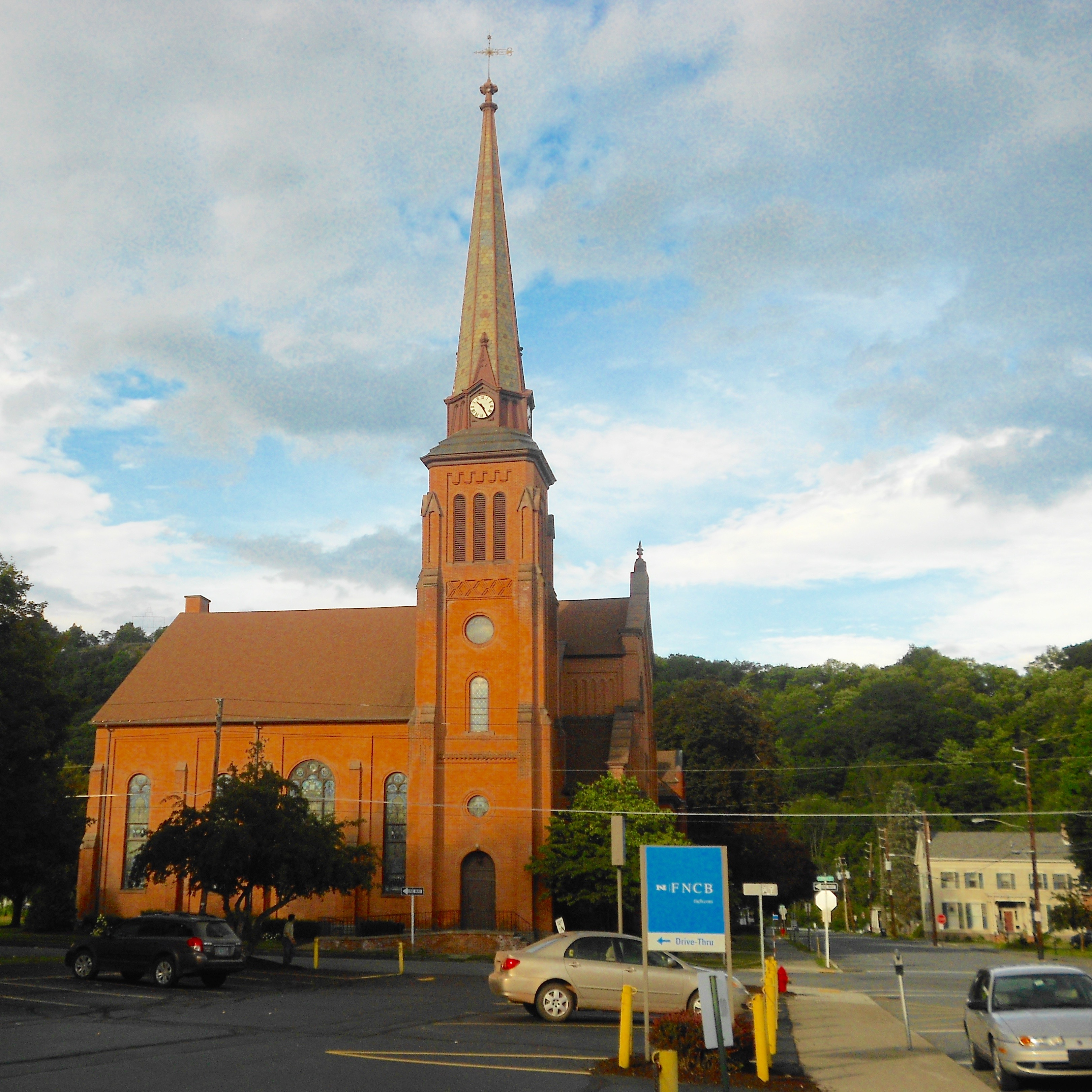 First Presbyterian Church in Honsdale, Pennsylvania